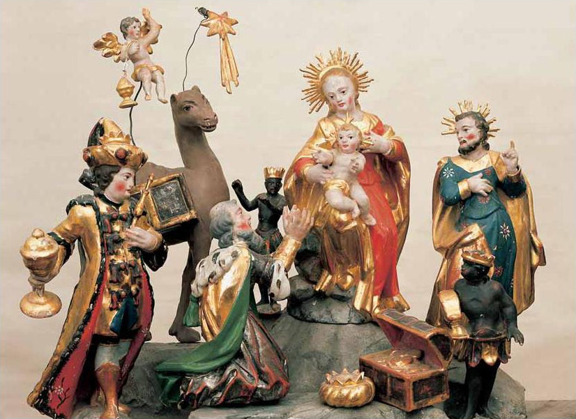 Crest from the church osf St Jakob in St. Ulrich in Gröden - Ortisei Val Gardena. Attributed to the Vinazer school AD ca. 1700. Exhibited n the Museum Gröden - Museum of Val Gardena.